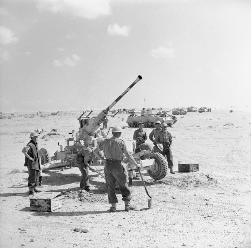 The British Army in North Africa 1942 A 40mm Bofors anti-aircraft gun being dug in near a squadron of Crusader tanks, 29 October 1942.